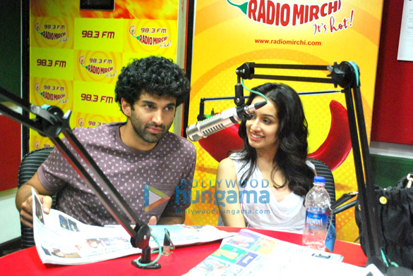 Shraddha Kapoor at promotions of Aashiqui 2 in Ahmedabad